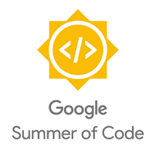 Google Summer of Code 2017